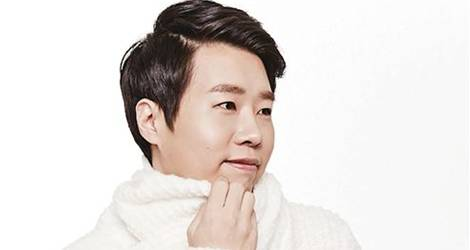 ricky ujung